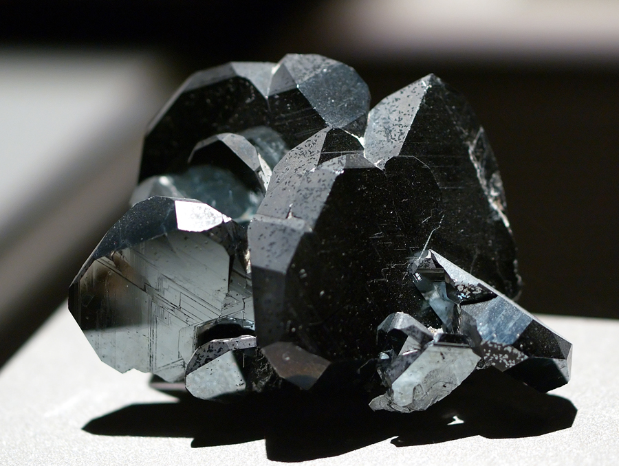 Hematite Trigonal iron oxide Ibitiara, Mina Gerais Brazil HMNS 5440 Wikipedia Loves Art at the Houston Museum of Natural Science This photo of item # 5440 at the Houston Museum of Natural Science was contributed under the team name "Assignment_Houston_One" as part of the Wikipedia Loves Art project in February 2009. Houston Museum of Natural Science The original photograph on Flickr was taken by sulla55—please add a comment to the original Flickr page whenever a use has been made on Wikipedia or another project. Project galleries on Flickr: this institution, this team